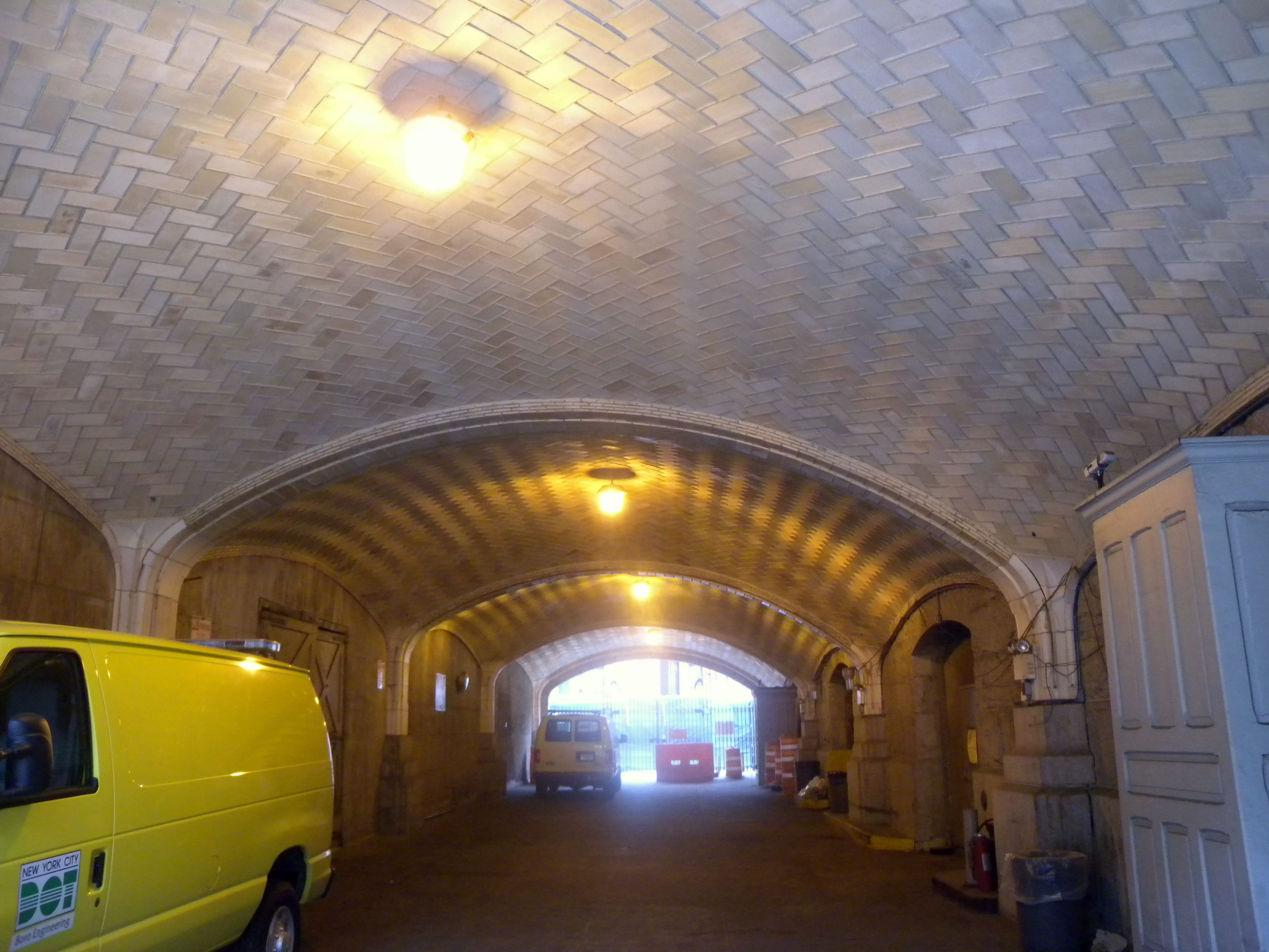 Looking south from 60th Street at storage space under Queensboro on a cloudy day.